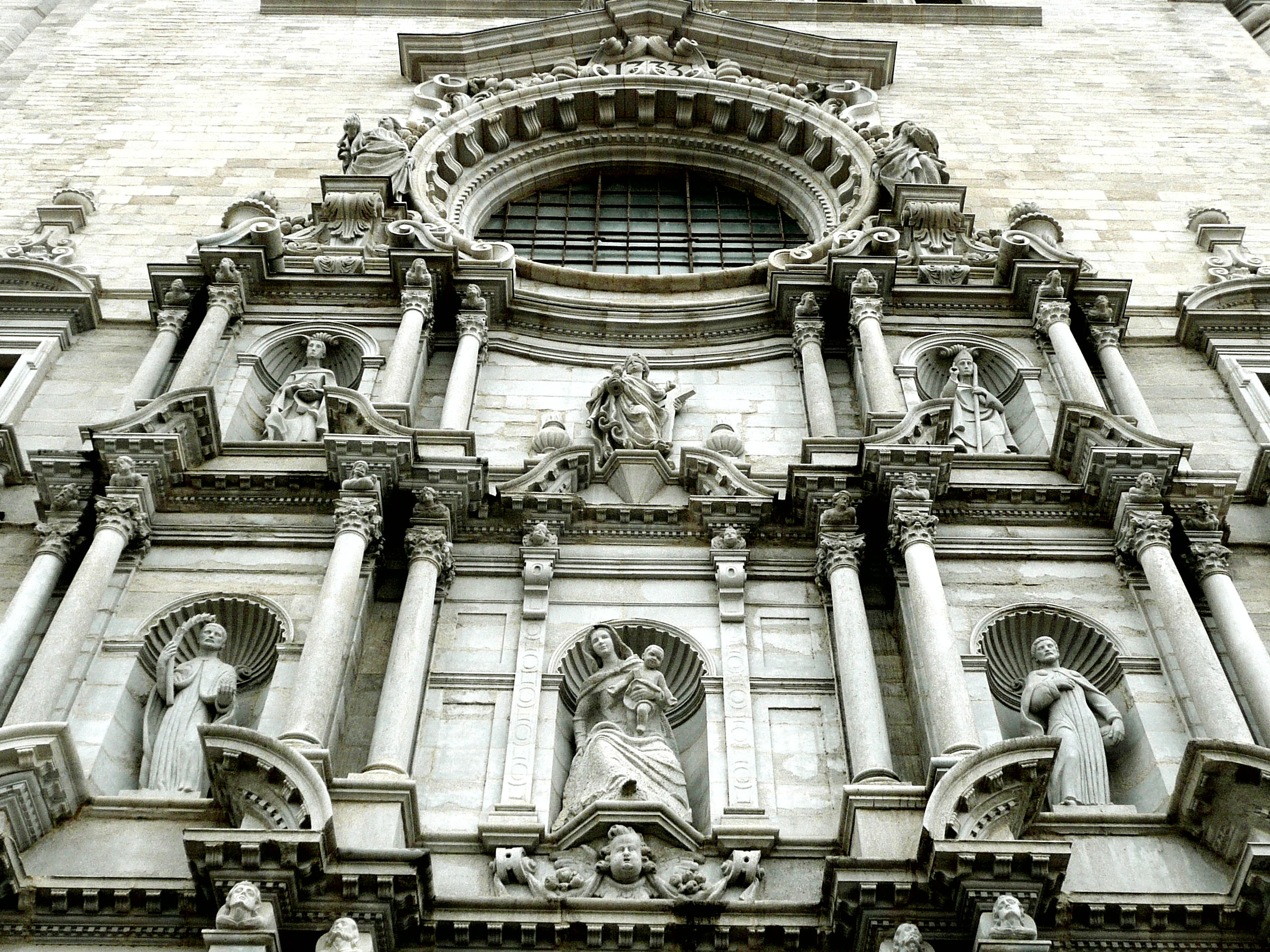 Girona cathedral